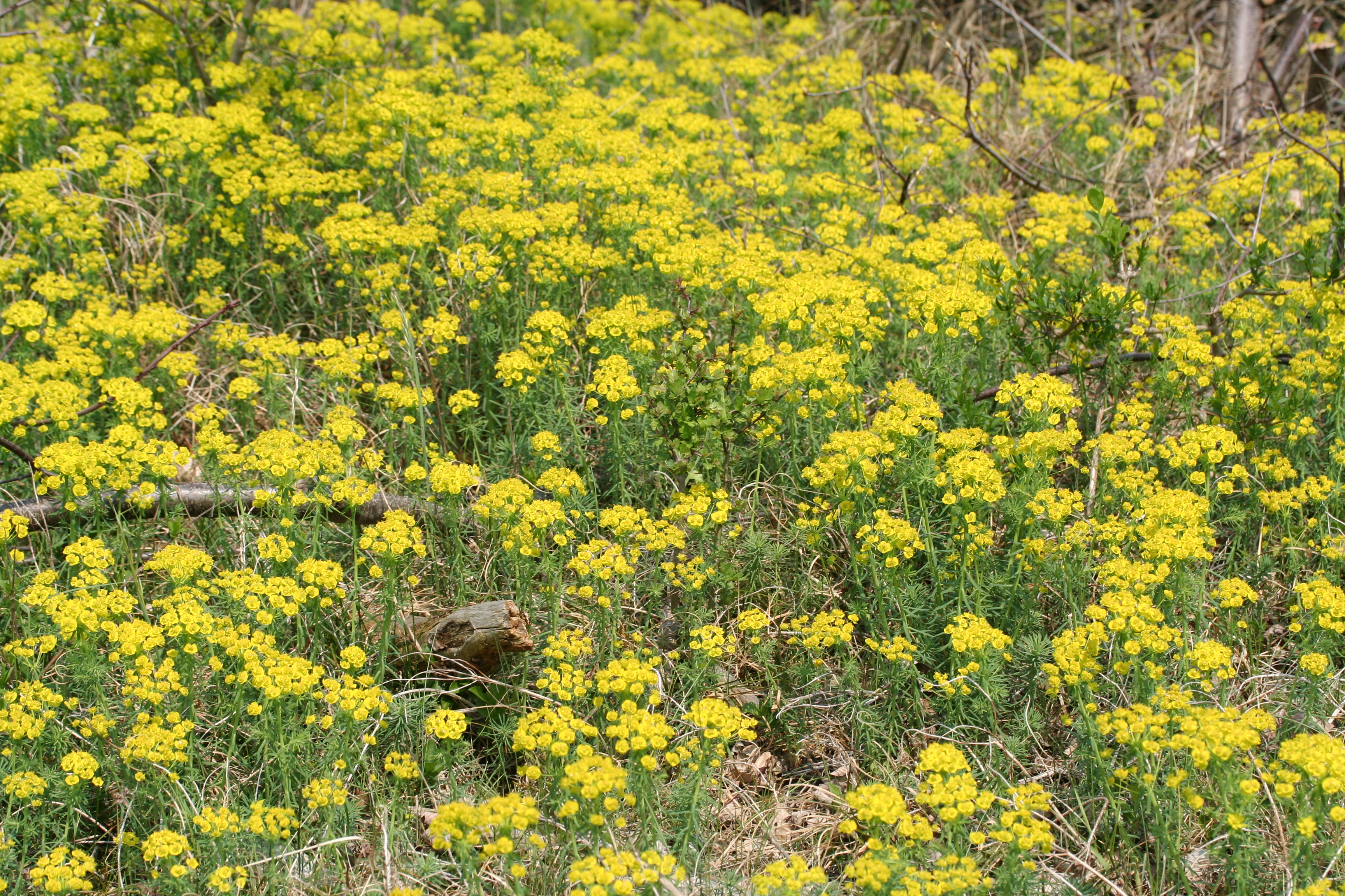 Euphorbia cyparissias 7 may 2006 IJmuiden, the Netherlands